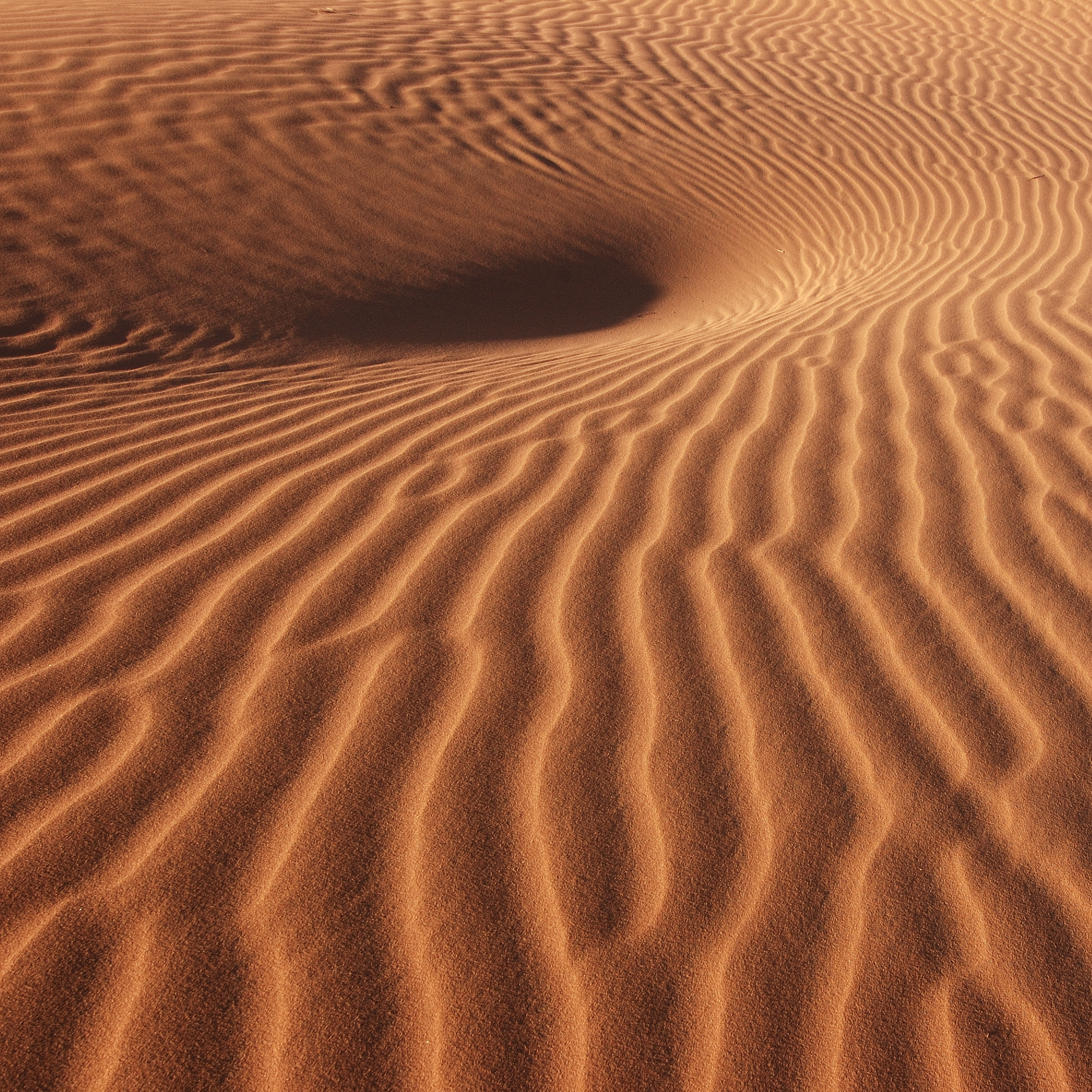 Sand ripples in the Erg Chebbi in Morocco